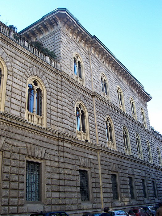 The palace dubbed Ca' de Sass ("stone house"), built as headquarter for former "Cassa di Risparmio delle Province Lombarde" bank (now Banca Intesa).